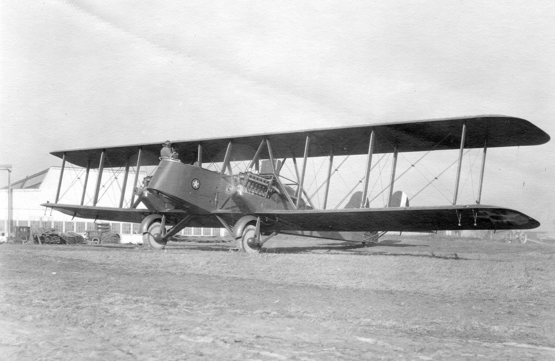 Martin MB-2 (NBS-1).